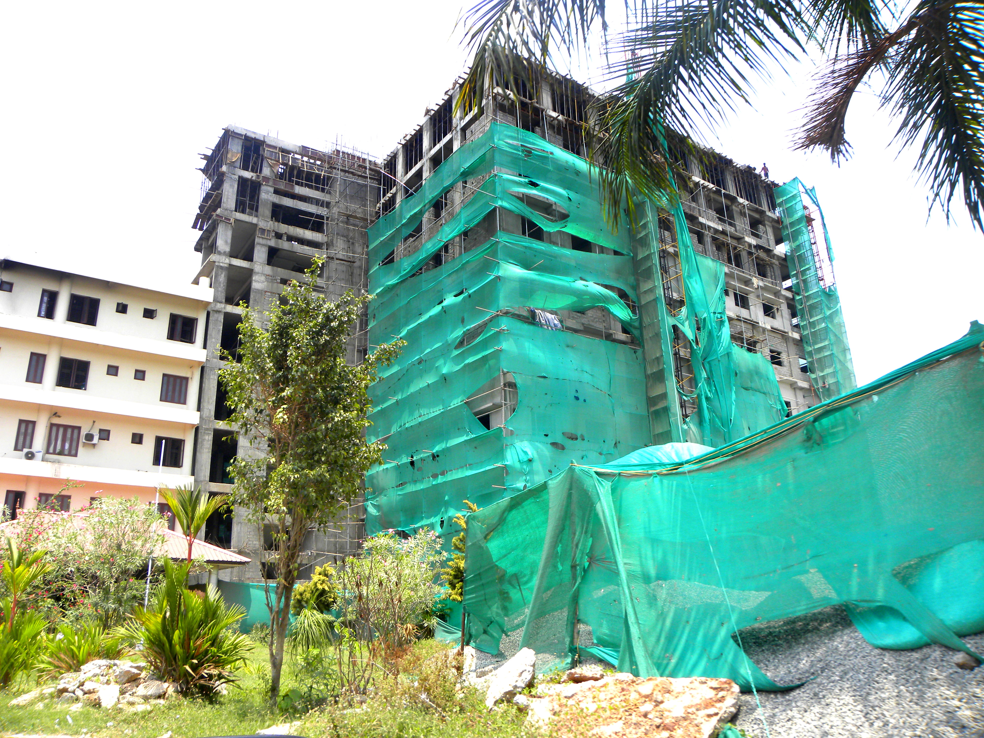 N.S Memorial Institute of Medical Sciences in Kollam city is the largest co-operative multi-specialty hospital in South Kerala.